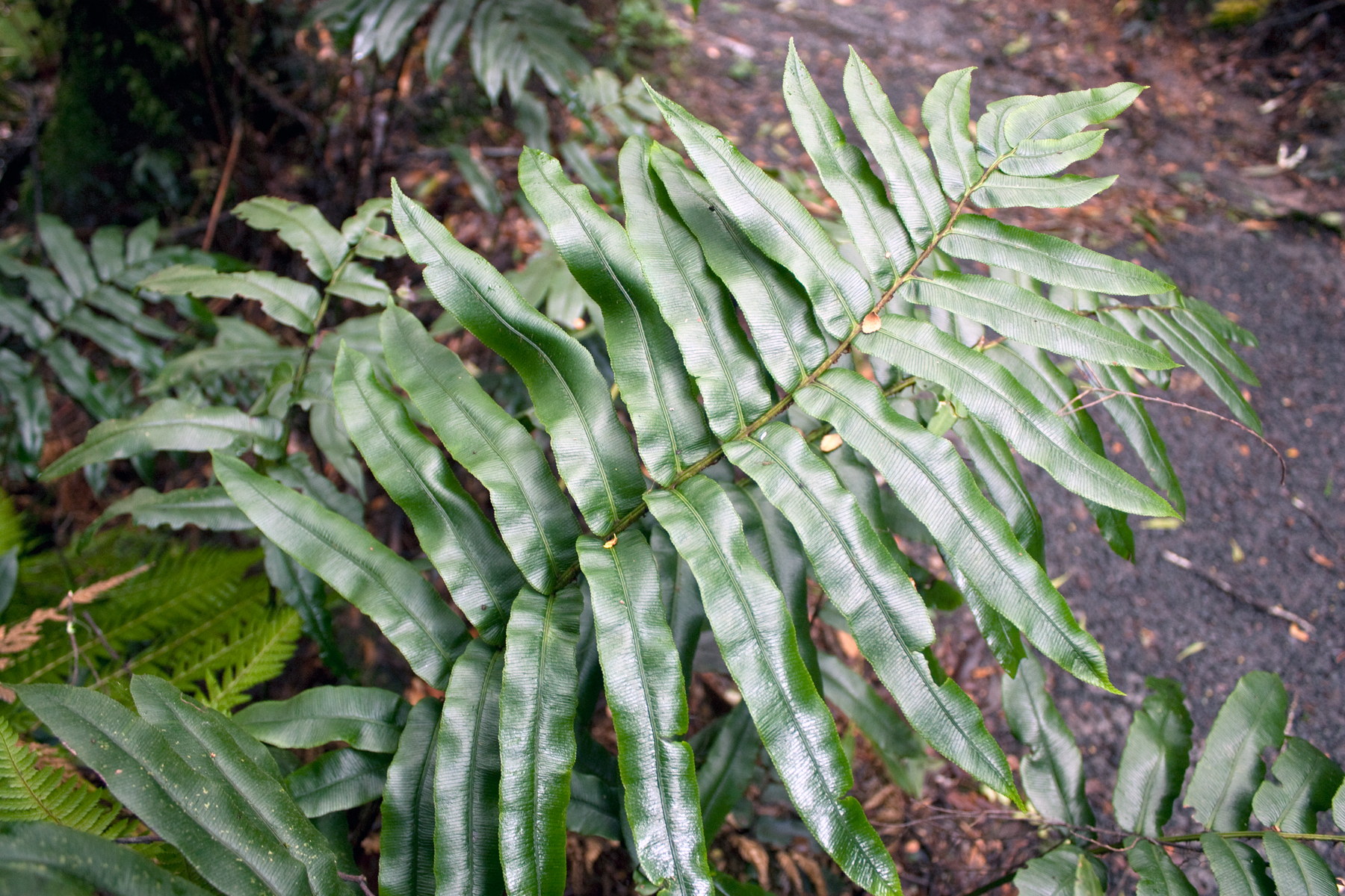 Hard Water Fern, Otway Ranges, Victoria Australia